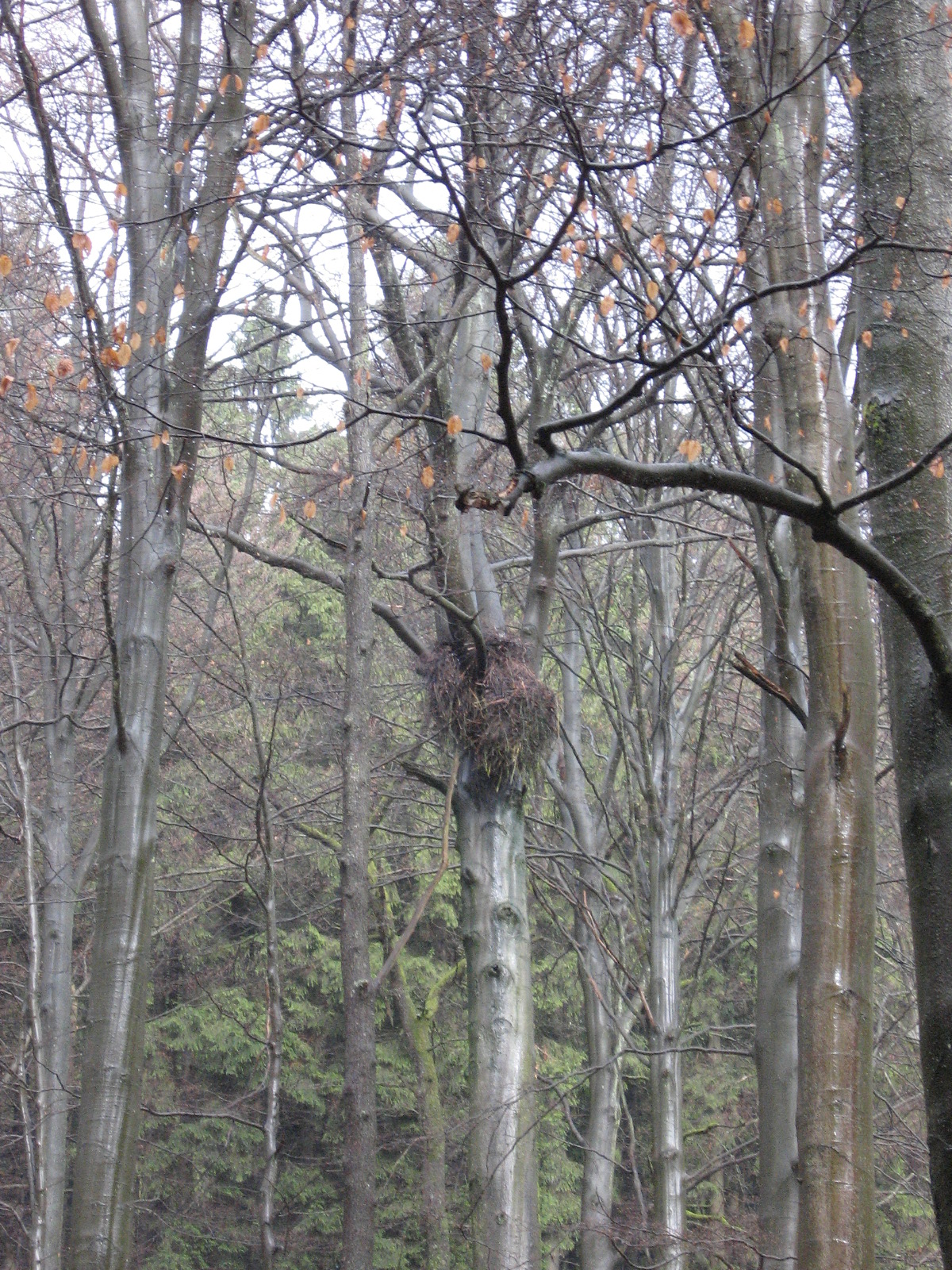 Old Black Stork nest in the Landschaftsschutzgebiet Eslohe (Protected Landscape Eslohe) on European beech (Fagus sylvatica) the European beech near Eslohe (Sauerland) in Germany.